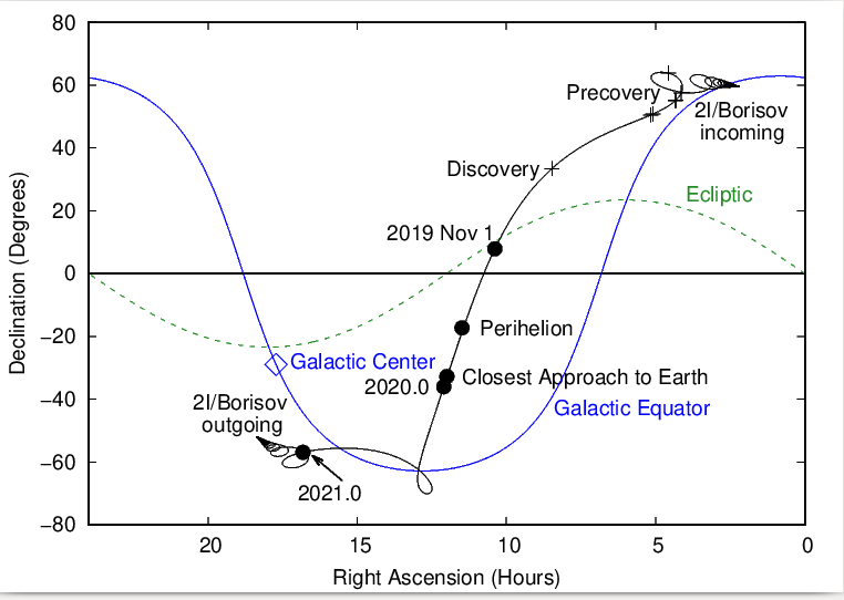 An image with the geocentric (Earth centered) path of the interstellar comet 2I/Borisov from 1600 to 2500. This ISO is moving very rapidly, with a velocity of infinity of ~32.3 km/sec. and so the parallactic spirals caused by the Earth's orbital motion get small quickly. The 2I/Borisov position at various dates are indicated on this image, including the 5 precovery images found by the Zwicky Transient Factory, the date of its discovery by Gennady Borisov, and the positions at its perihelion (closest approach to the Sun) and closest approach to the Earth.